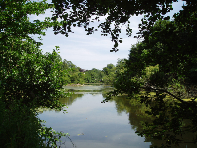 Blackford Pond. A beautiful parkland in the city although with the tree cover you wouldn't think you were in a city.